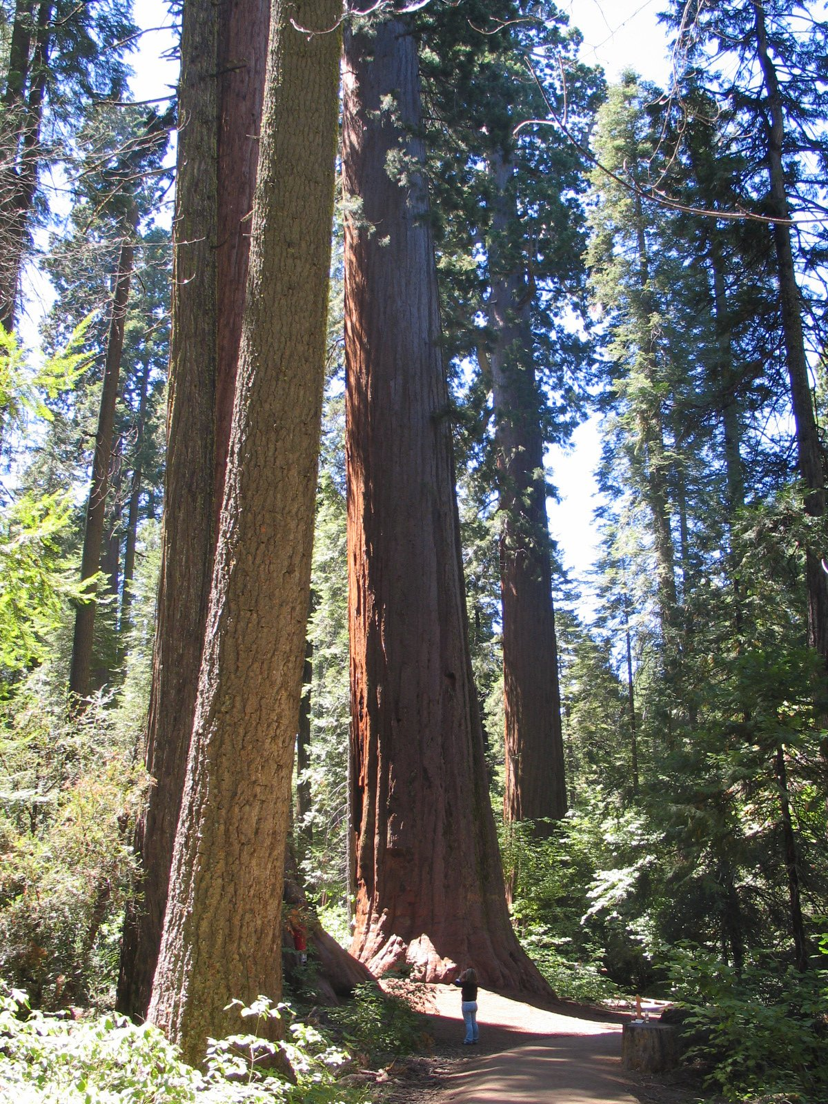 Calaveras Big Trees State Park in the western Sierra Nevada, Calaveras County, California. The photo shows a trail through a grove of Sequoiadendron giganteum (Giant Sequoia) trees (orange bark, center), with Pinus lambertiana (brown bark, left).